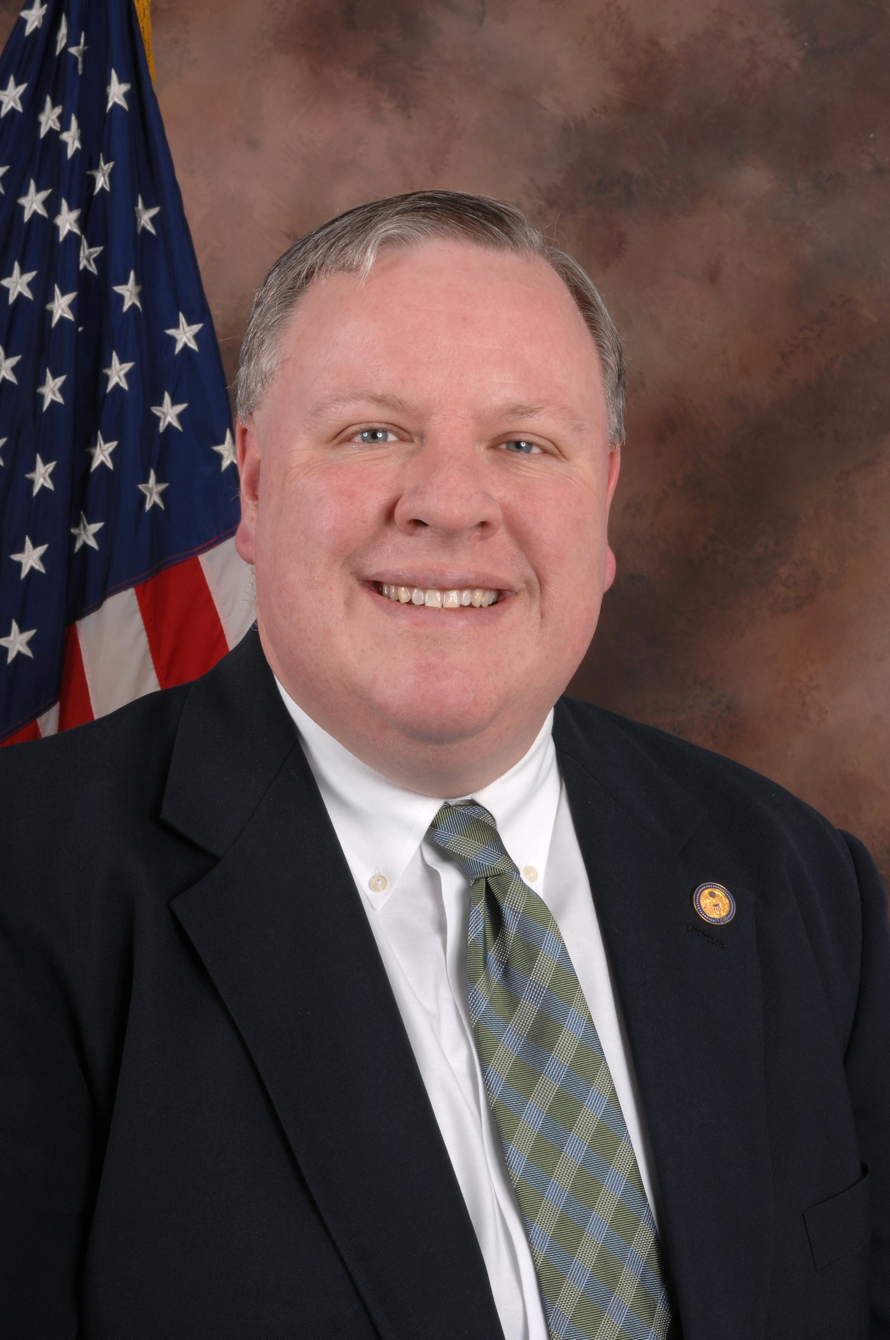 Phil English, member of the United States House of Representatives.